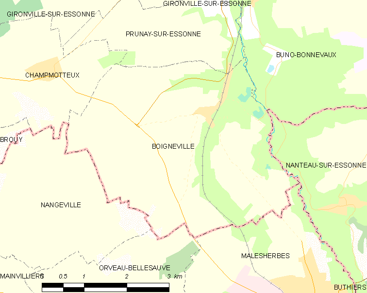 Map of French municipality Boigneville